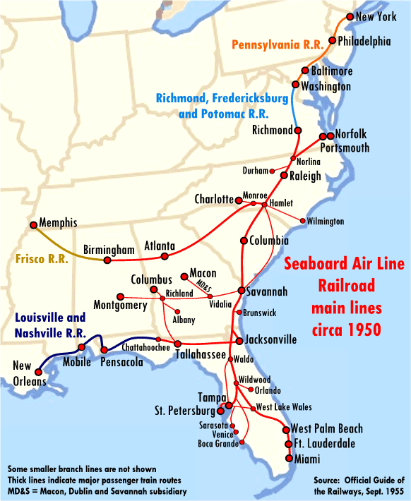 A schematic map of Seaboard Air Line Railroad main lines, circa 1950, with major passenger routes indicated by thick lines.